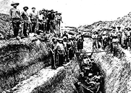 Gumdiggers mining for kauri gum in a gumfield. Photo taken in 1908.